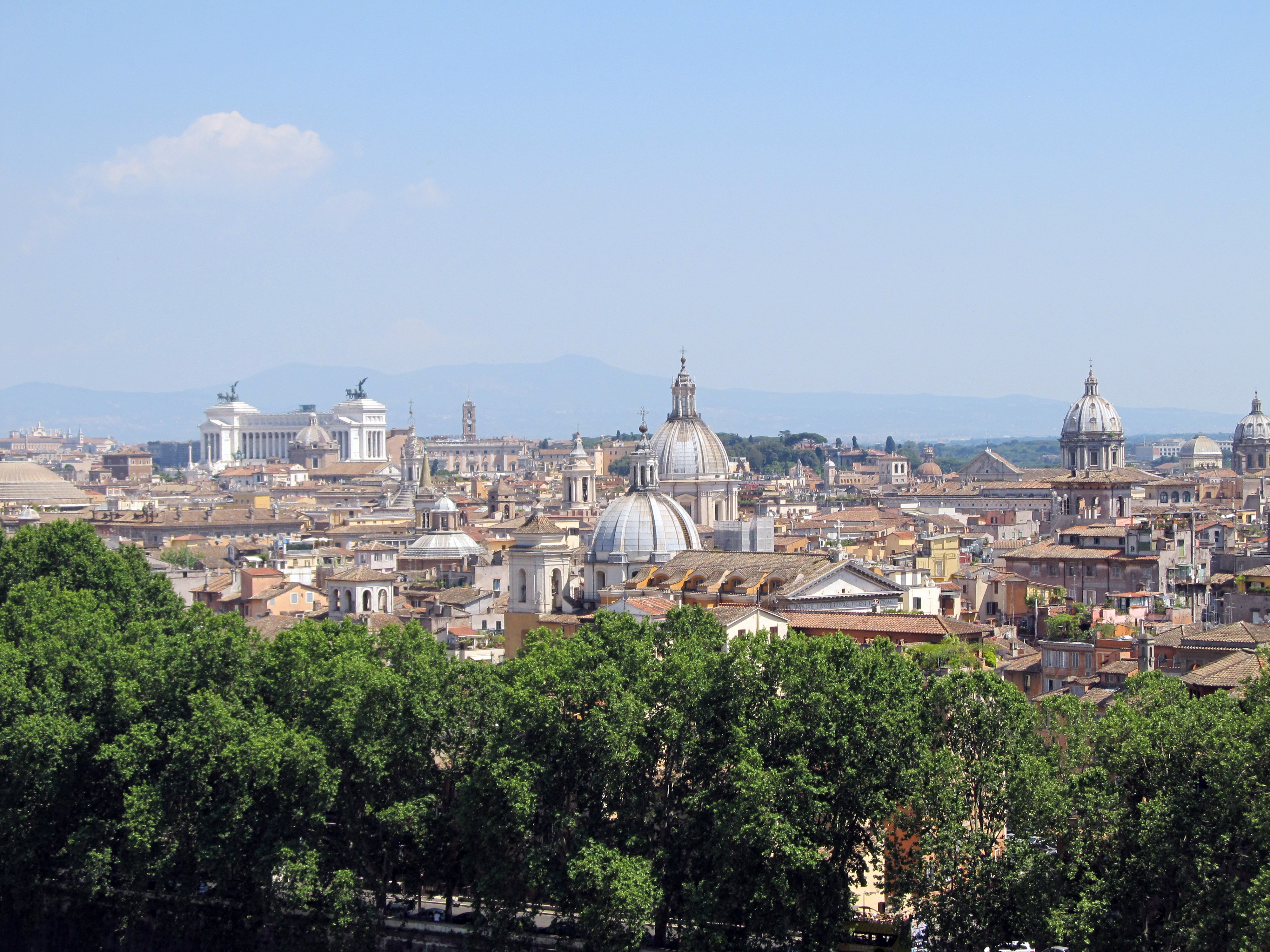 View from the top of the Castel. Looking southeast toward the ancient city core. Look at how many domes there are!